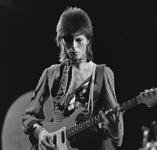 David Bowie, shooting his video for Rebel Rebel in AVRO's TopPop (Dutch television show) in 1974